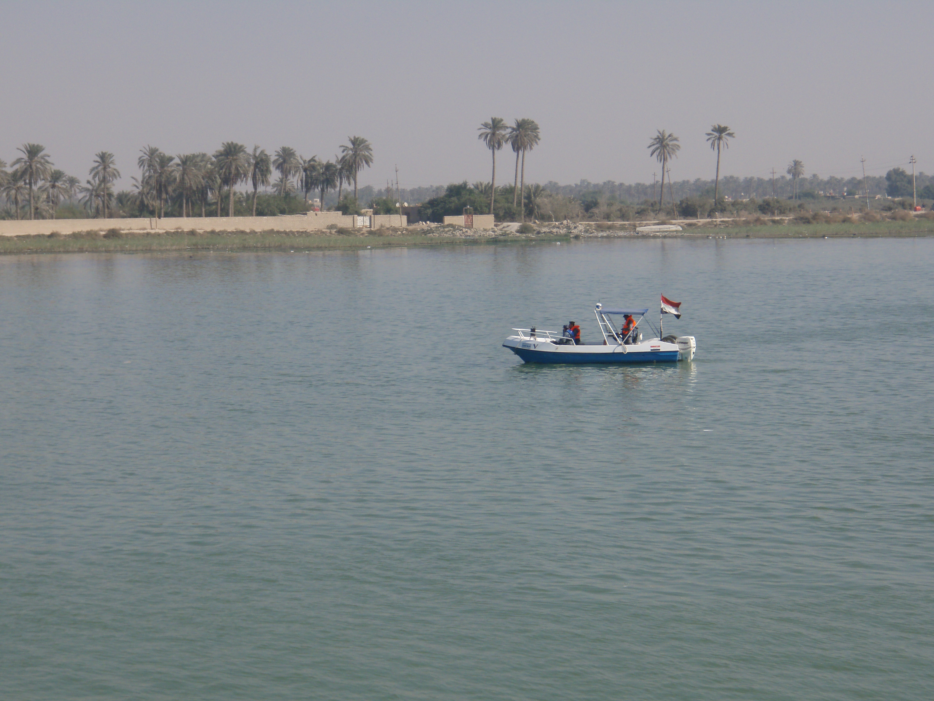 This is about 40 miles from where the conjoined Tigris and Euphrates Rivers flow into the Persian Gulf.